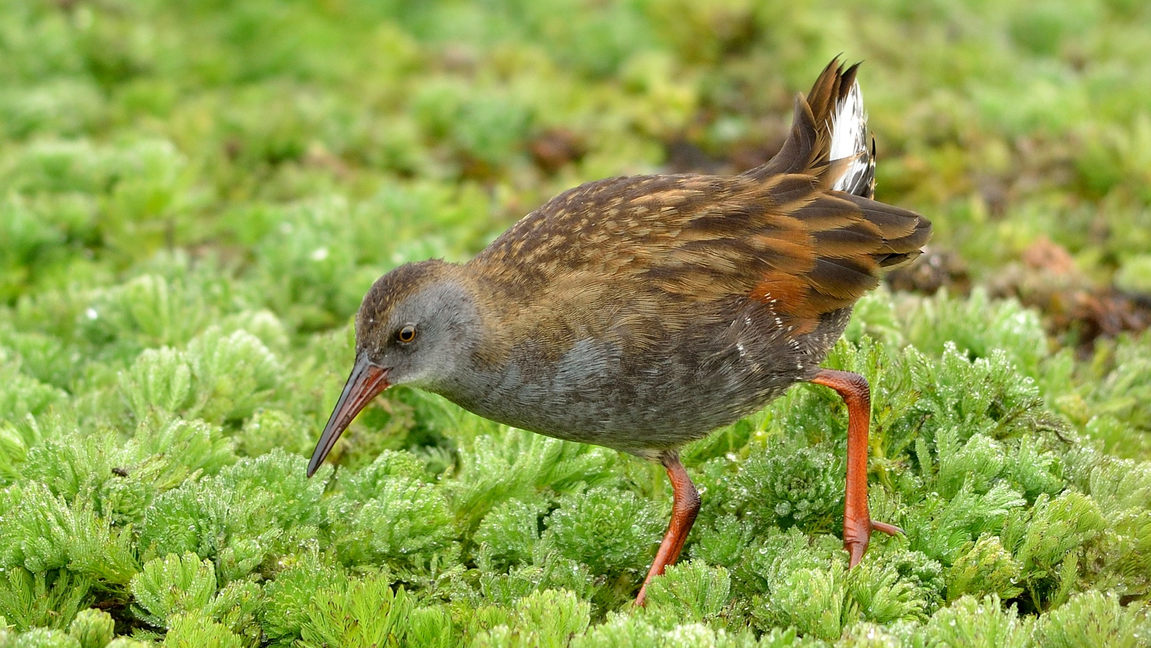 Bogota Rail